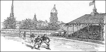 This is an early sketch of Cartier Field, home of the Notre Dame Football Program from 1900 to 1928.